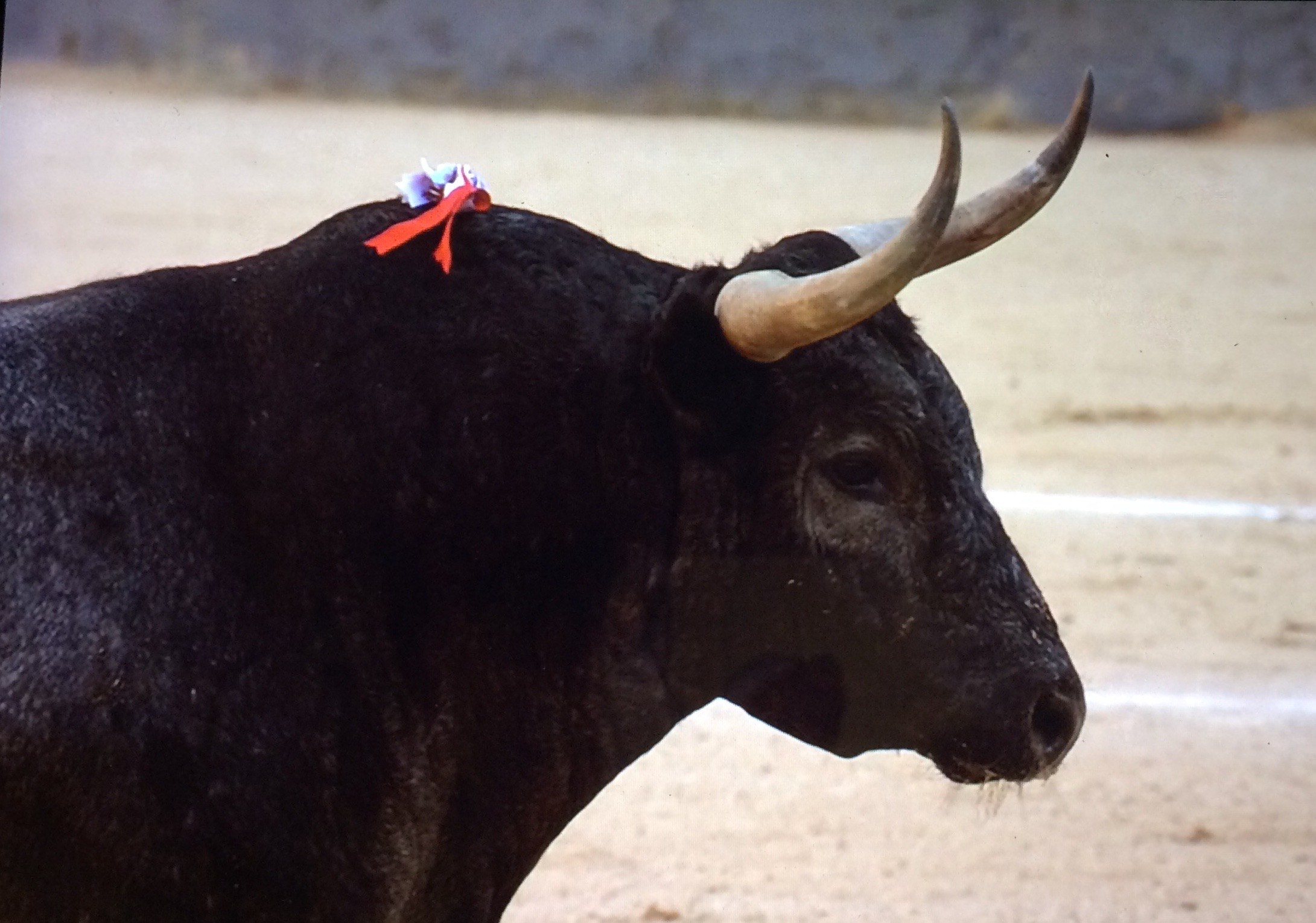 The cornivuelto bull is as it is called the bull that has the horns with the tips of the pythons turned back